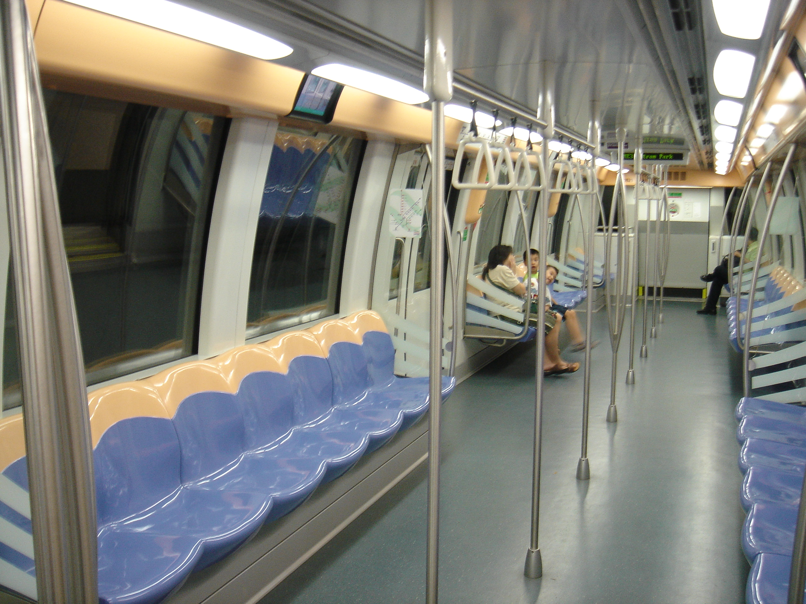 Interior of an Alstom Metropolis NEL MRT train, front compartment